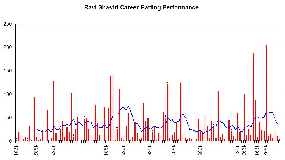 This graph details the Test Match performance of Ravi Shastri. It was created by Raven4x4x. The red bars indicate the player's test match innings, while the blue line shows the average of the ten most recent innings at that point. Note that this average cannot be calculated for the first nine innings. The blue dots indicate innings in which Shastri finished not-out. This graph was generated with Microsoft Excel 2002, using data from Cricinfo and .au.